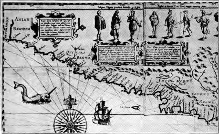 Map showing Oregon Coast as understood circa 1601